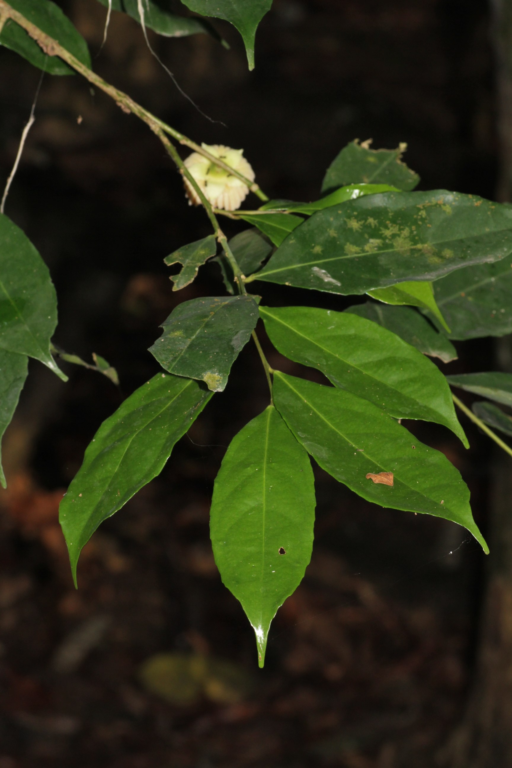 Taï National Park, Ivory Coast